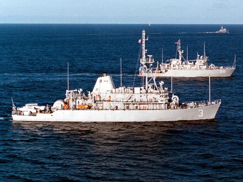 USS_Sentry_(MCM-3), The Gulf of Mexico. Sentry foreground, and coastal minehunter USS Kingfisher (MHC-56) are underway in the Gulf of Mexico as they depart Naval Station, Ingleside, TX for a cruise to the Great Lakes and to several fleet exercises. U.S. Navy photo 000316-N-7867W-507